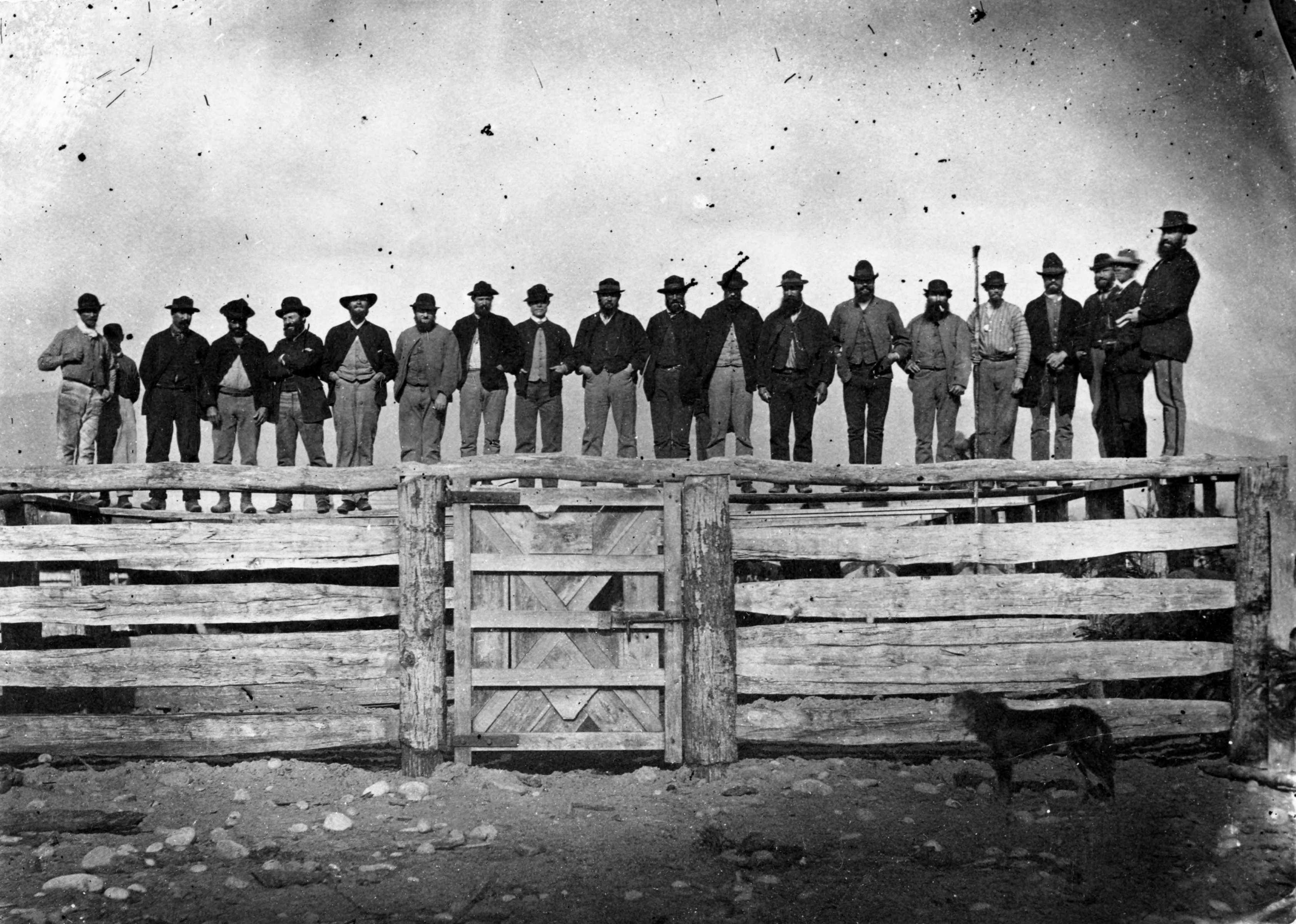 Row of butchers at a stockyard sale at South Spit in Westport, 1870. Shows J Colvin, J Suisted, G Lamplough, R McFarlane, J Brown, J Powell and E Drennan. Also shows John Munro as the auctioneer, at right.